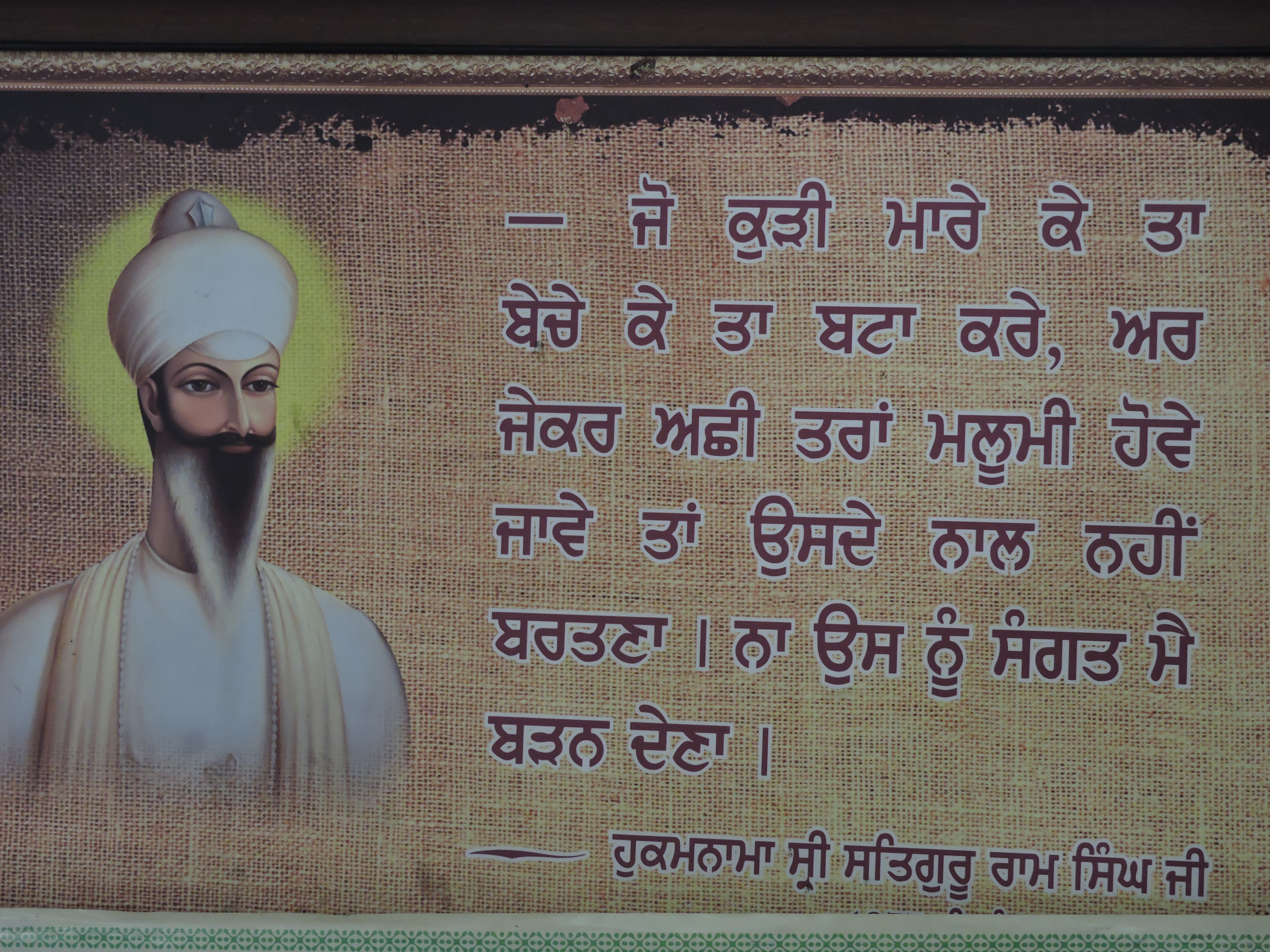 Namdhari Guru Satguru Ram Singh's verdict in favour of women of punjab, India